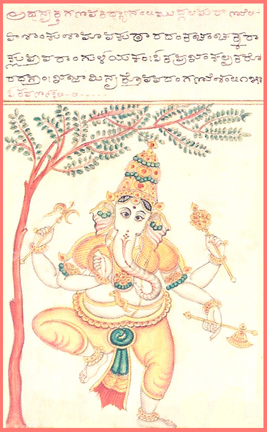 Reproduction from the Śrītattvanidhi ("The Illustrious Treasure of Realities"), an iconographic treatise compiled in the 19th century in Karnataka, India, by order of the then Maharaja of Mysore, Krishnaraja Wodeyar III (b. 1794 - d. 1868).